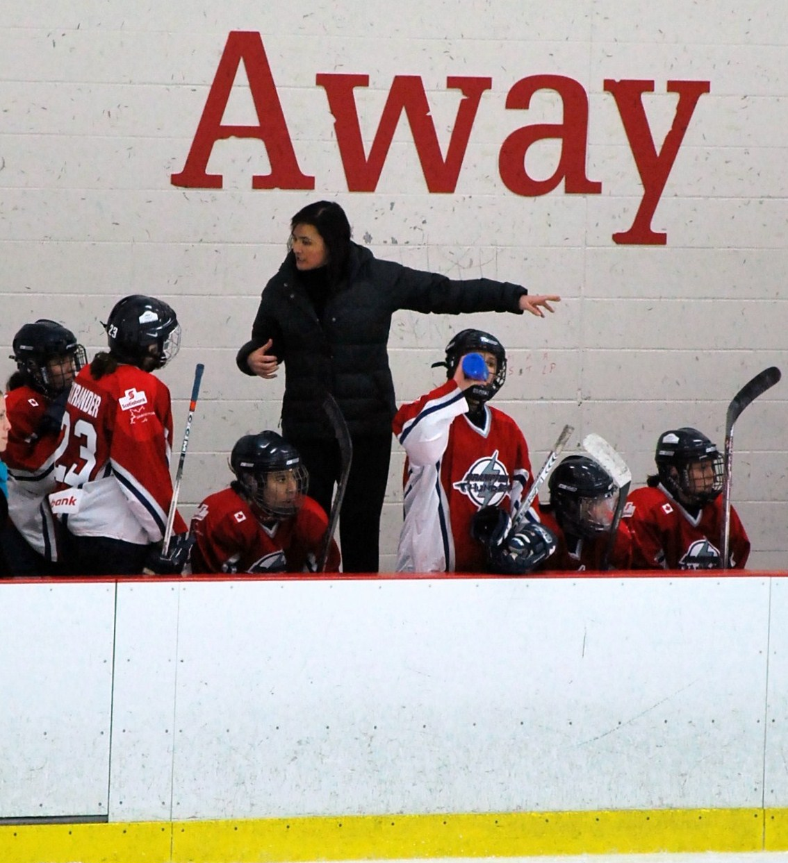 Pictures from Ottawa Senators games during the 2008/09 CWHL season